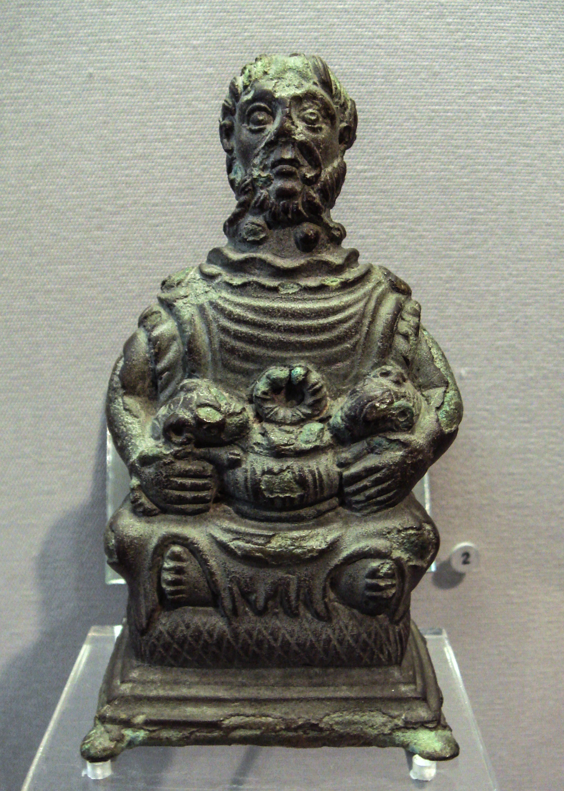 God of Etang-sur-Arroux, possible depiction of Cernunnos. He wears a torc at the neck and on the chest. Two snakes with ram heads encircle him at the waist. Two cavities at the top of his head are probably designed to receive deer horns.